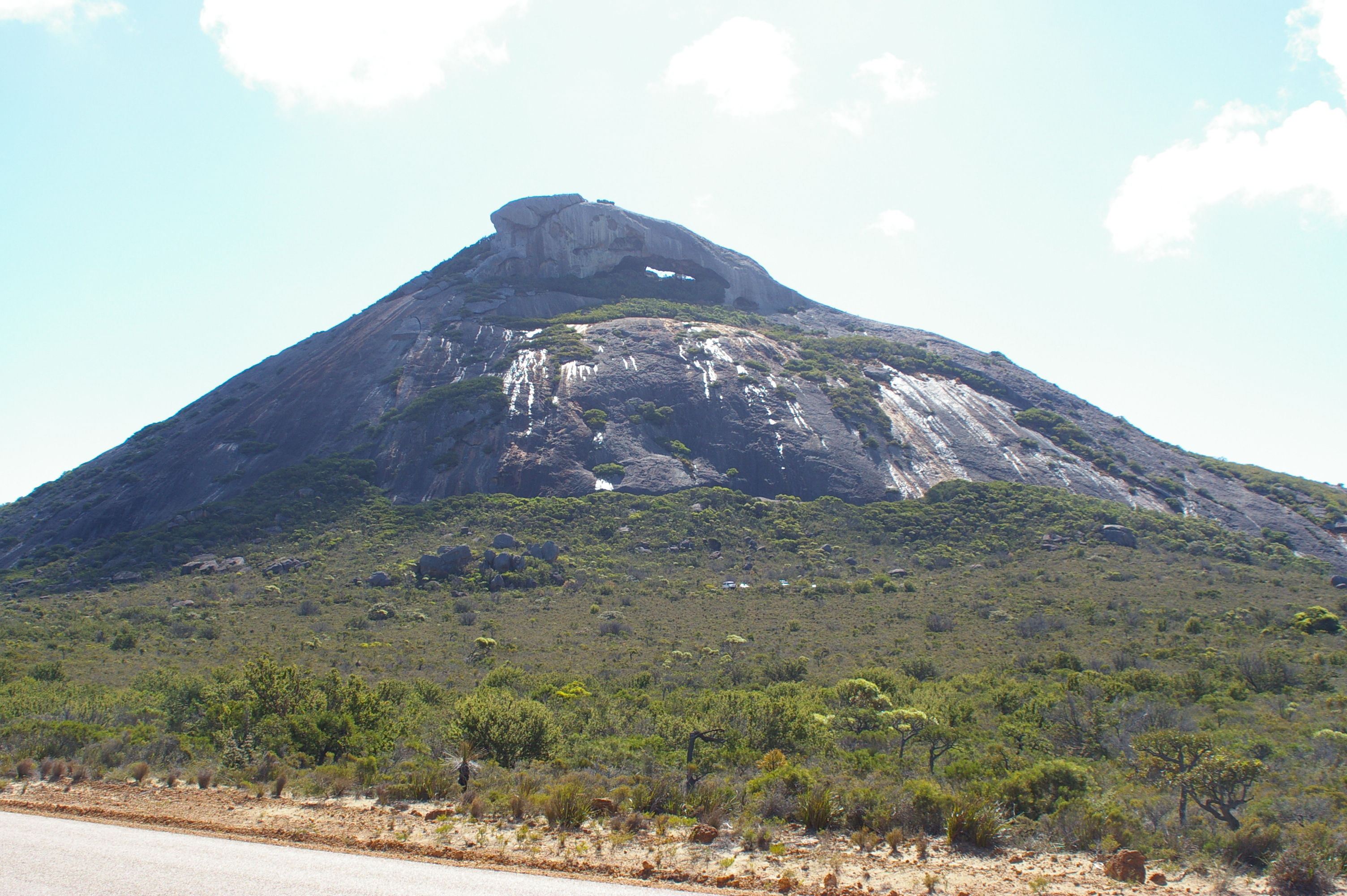 Pic Frenchmans